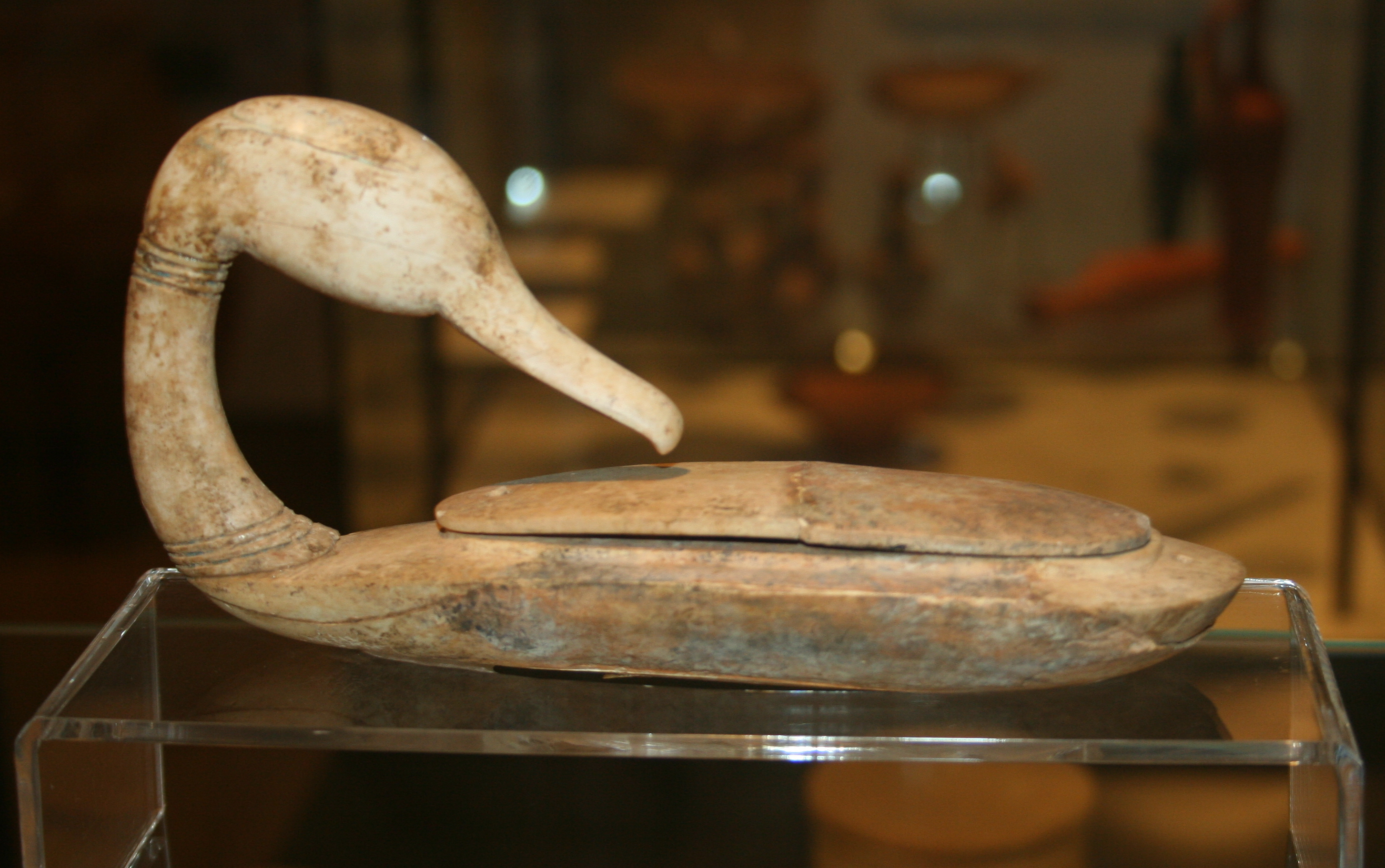 Hippo tusk makeup box from the bronze age. Hecht Museum, Haifa University, Israel